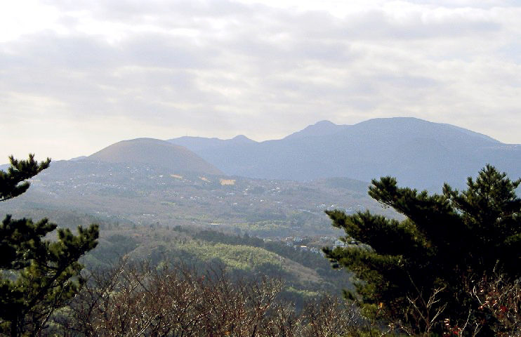 View of Mt. Omuro and Mt. Amagi, located in Shizuoka prefecture, Japan.